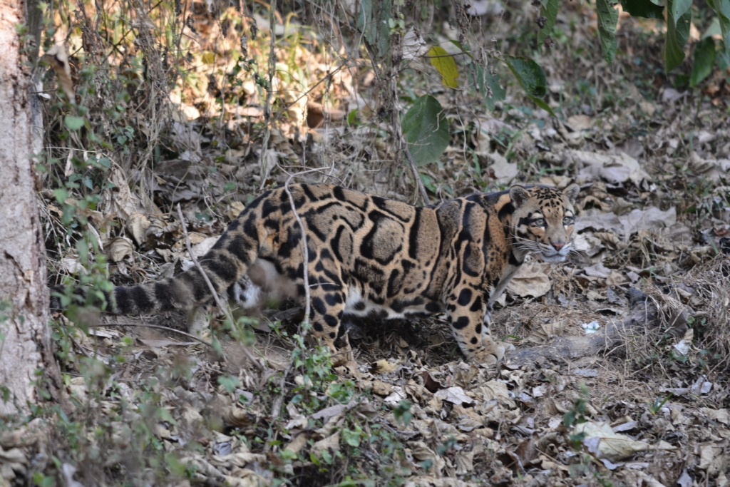 Clouded Leopard (Neofelis nebulosa macrosceloides). Photo taken by Dr. Raju Kasambe. Photo taken at Zoo in Aizawl, Mizoram, India. The elusive big cat was brought here from forests towards the Myanmar border.